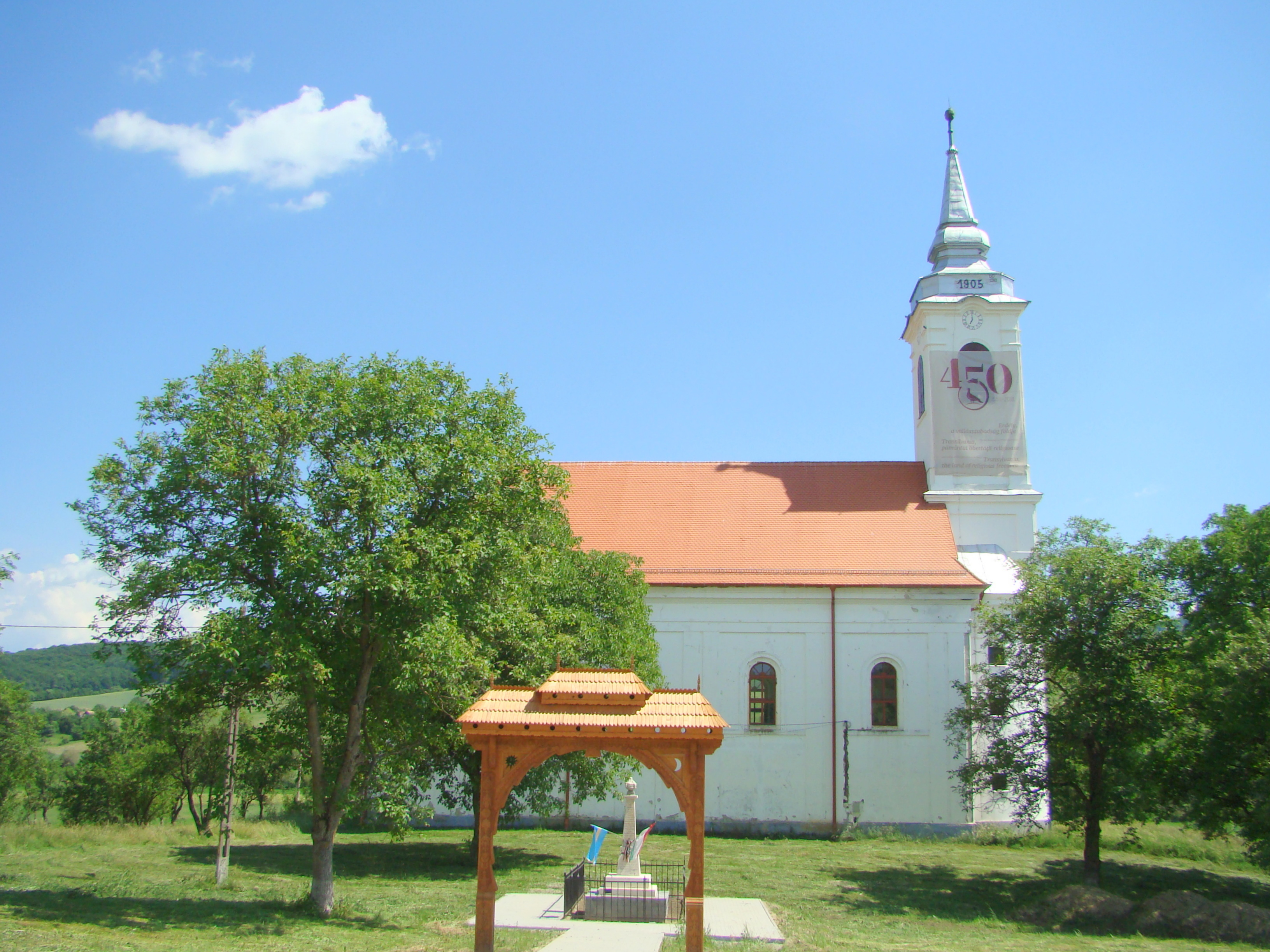 Unitarian church in Mihăileni (Şimoneşti), Harghita county, Romania